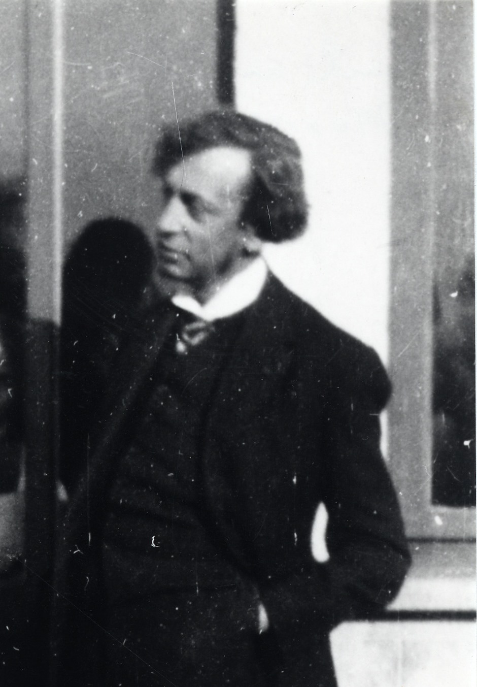 Belgian writer Karel van de Woestijne in 1928.